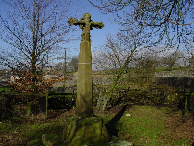 Wheston Cross This ancient cross stands in a small enclosure near the centre of the village.